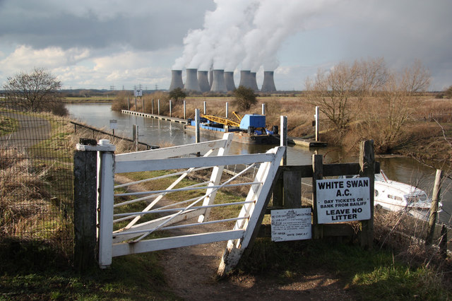 Trentside gate One of the familiar Trent-side gates with the approach to Torksey Lock and Cottam power station beyond